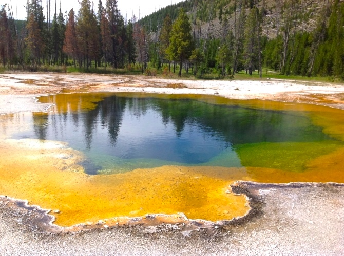 The hot spring Morning Glory in Yellowstone National Park, bright colour come from growing archaea